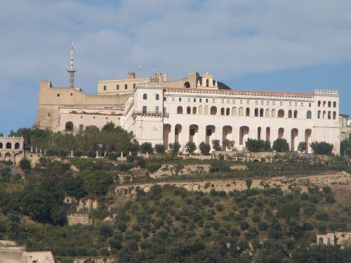 Private photo taken and uploaded by user Jeffmatt 08:37, 25 September 2006 (UTC). No rights claimed.